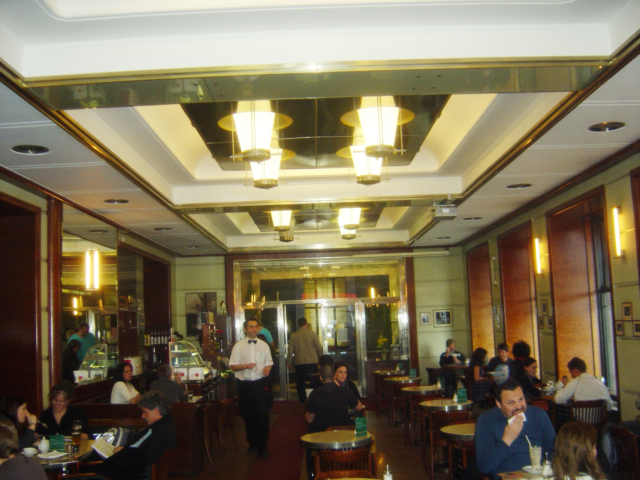 Cafe Slavia in Prague interior